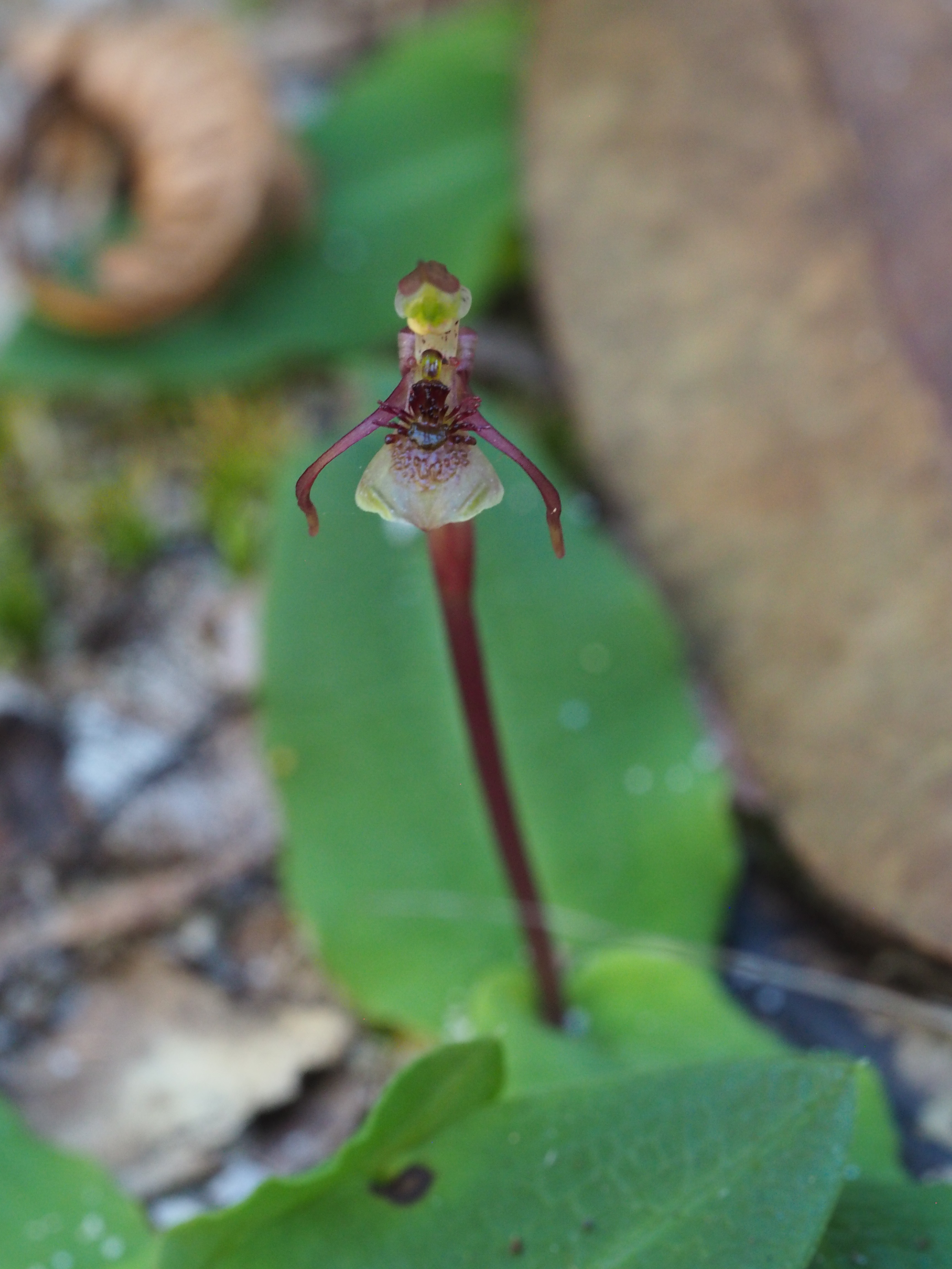 Chiloglottis sylvestris growing along the Bundageree walking track behind the front dune in the Bongil Bongil National Park near Repton